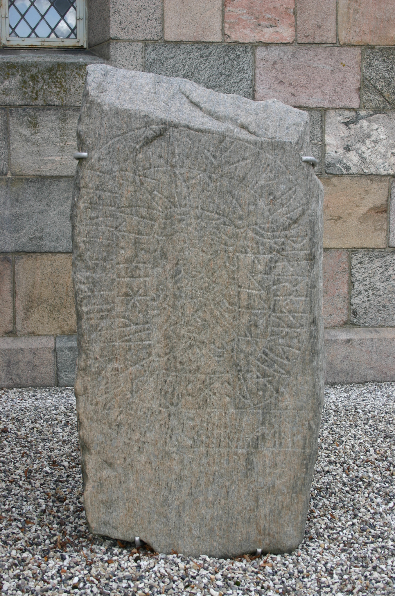 Runestone (Skjern 2) at Skjern Church in Mid-Jutland, Denmark. Runesten (Skjern 2) ved Skjern Kirke mellem Viborg og Randers